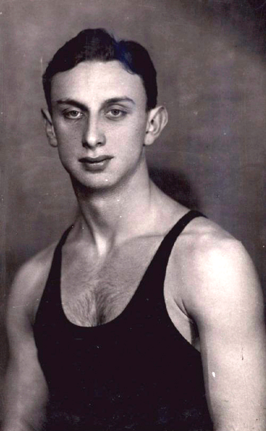 Csik Ferenc (1913-1945) hungarian olympic champion swimmer